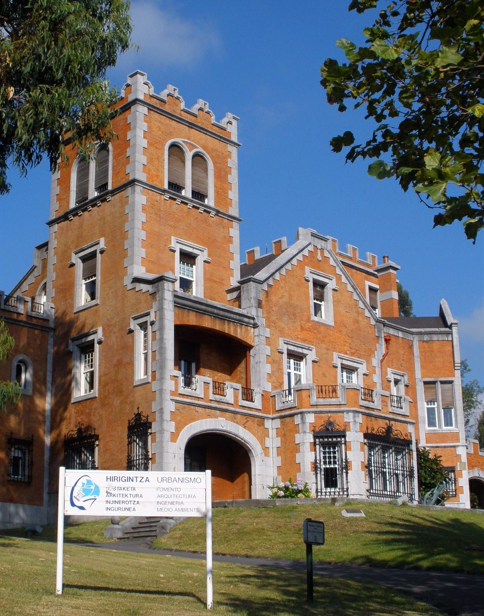 Palacio de Santa Clara, en Algorta, Guecho (Vizcaya)